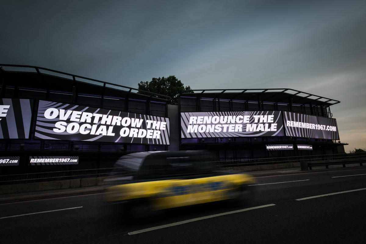 Text by public artist Martin Firrell presented on digital billboards to commemorate the 50th anniversary of the 1967 Sexual Offences Act in England and Wales. Titled 'Remember 1967' the artwork re-presented the demands of activists from the 1960s that still warrant attention in the present day.